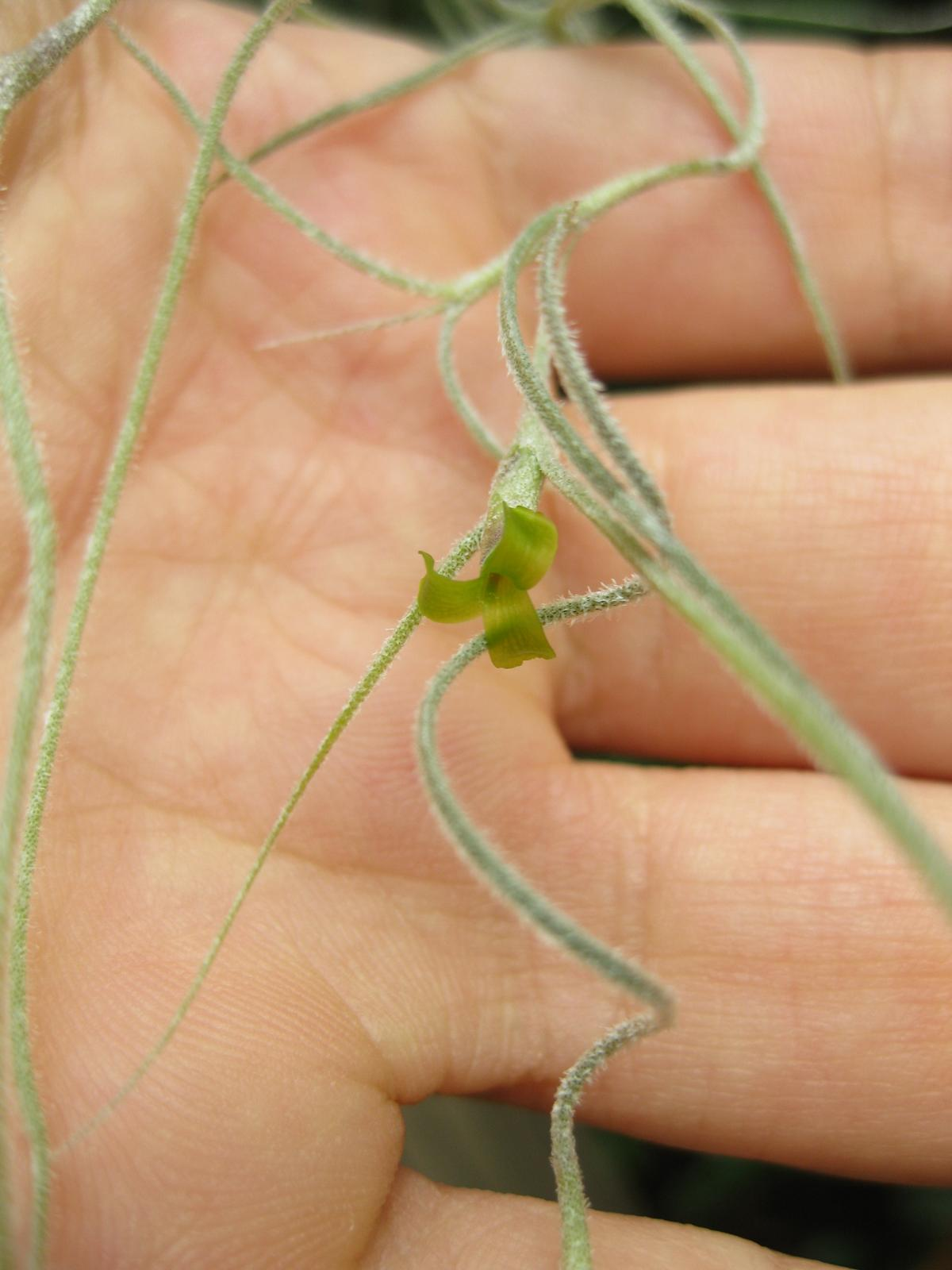 Photographed at Huntington Gardens (Los Angeles) in June